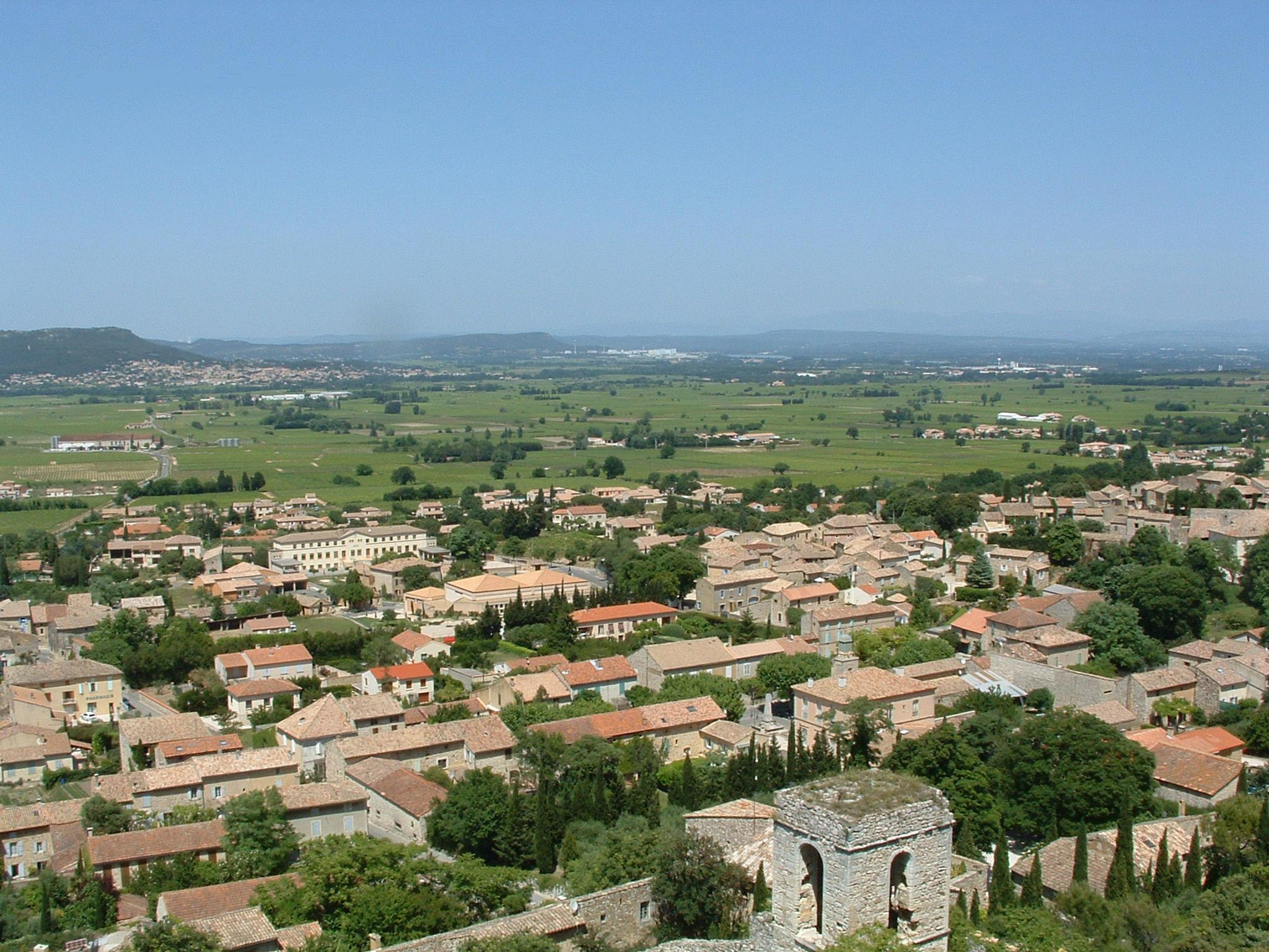 View of St. Victor la Coste, Gard-Provence, Gard, France and the neighboring countryside, taken from the castle on the hill above the village. Photo taken by me, Donald Albury